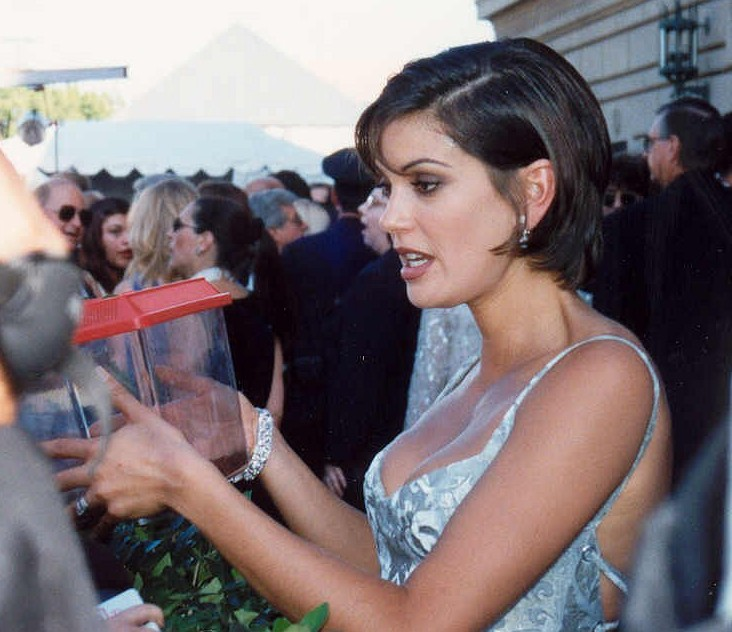 Teri Hatcher outside the Emmy Awards.